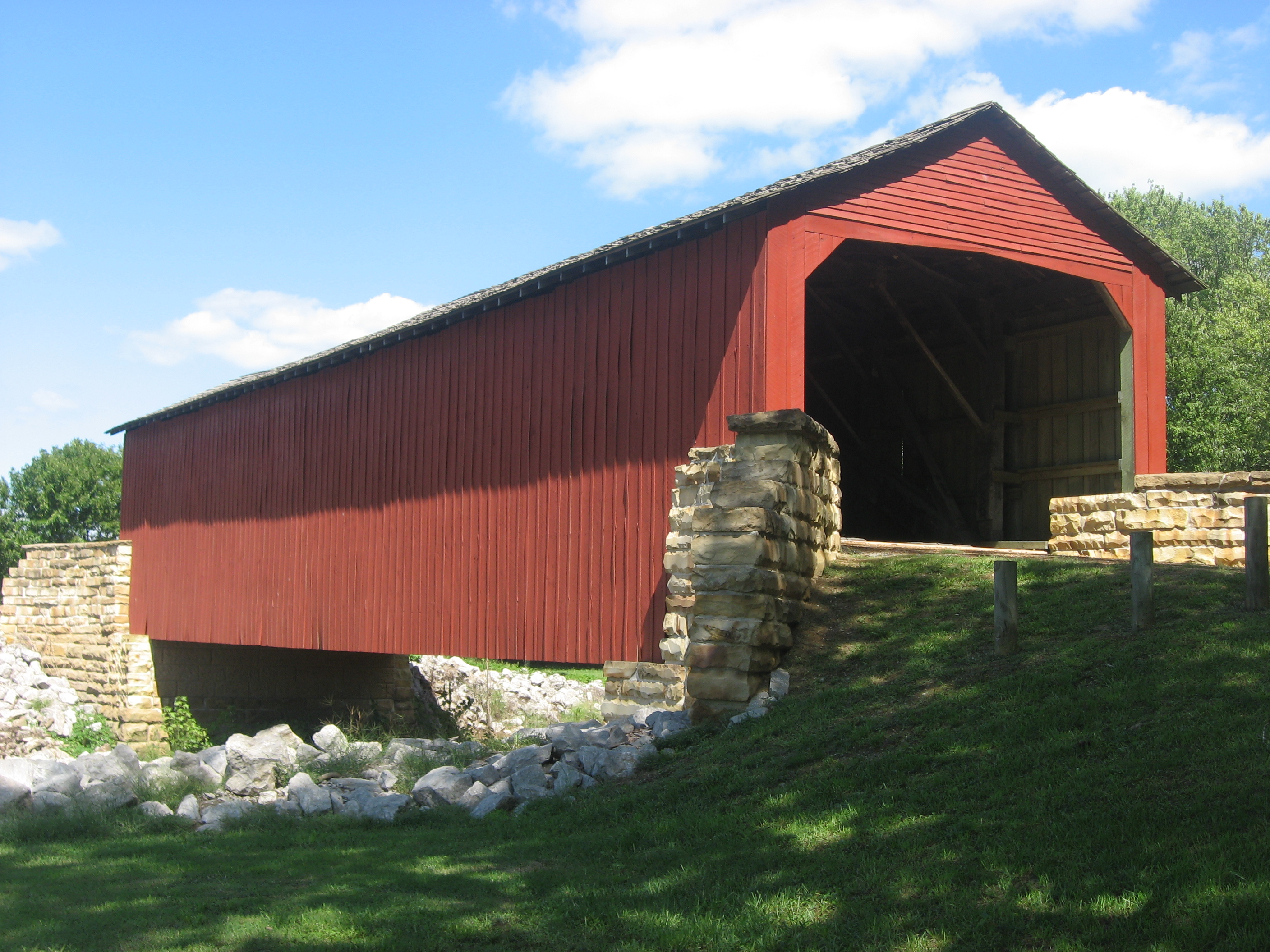 Southern portal and western side of the Mary's River Covered Bridge, which carries the old roadbed of Illinois Route 150 over the Little Marys River north of Chester in Randolph County, Illinois, United States. Built in 1854, it is listed on the National Register of Historic Places.